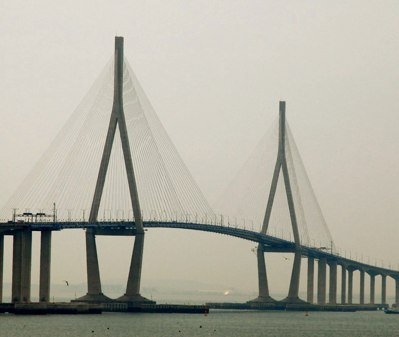 Incheon bridge, Incheon - Yeongjong Island - South Korea